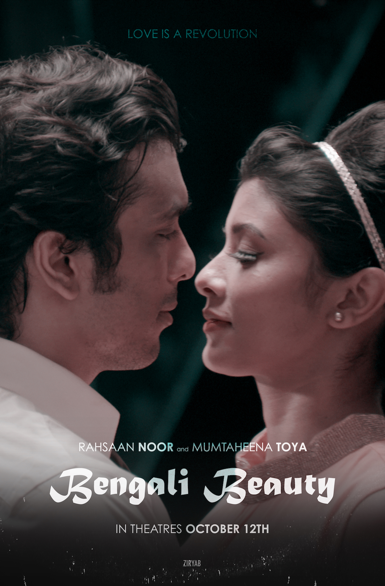 Bangladesh release poster of Bengali Beauty.